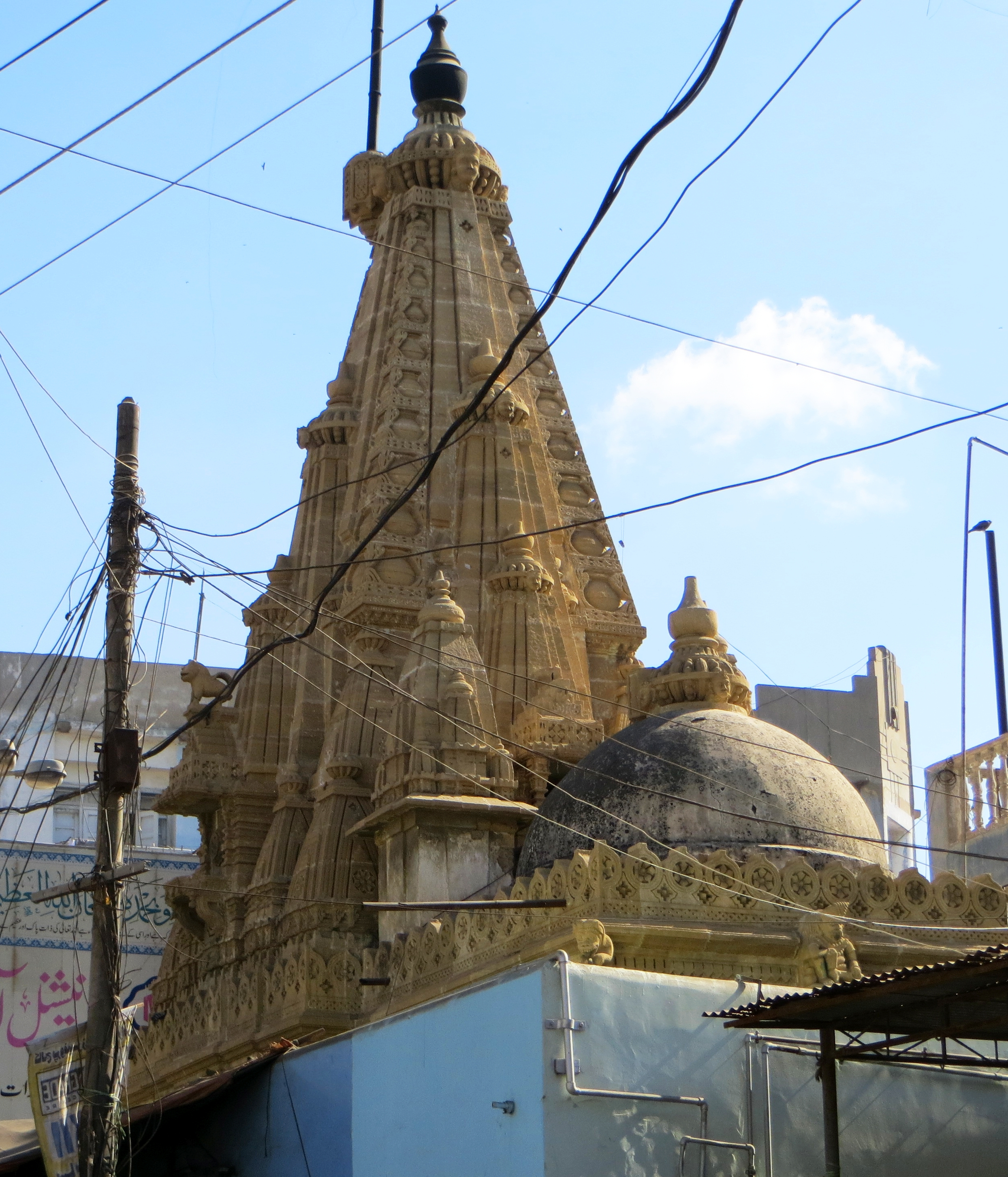 A view of the Panchmukhi Hanuman temple at Soldier Bazaar in Karachi This is a photo of a monument in Pakistan identified as the SD-U-22